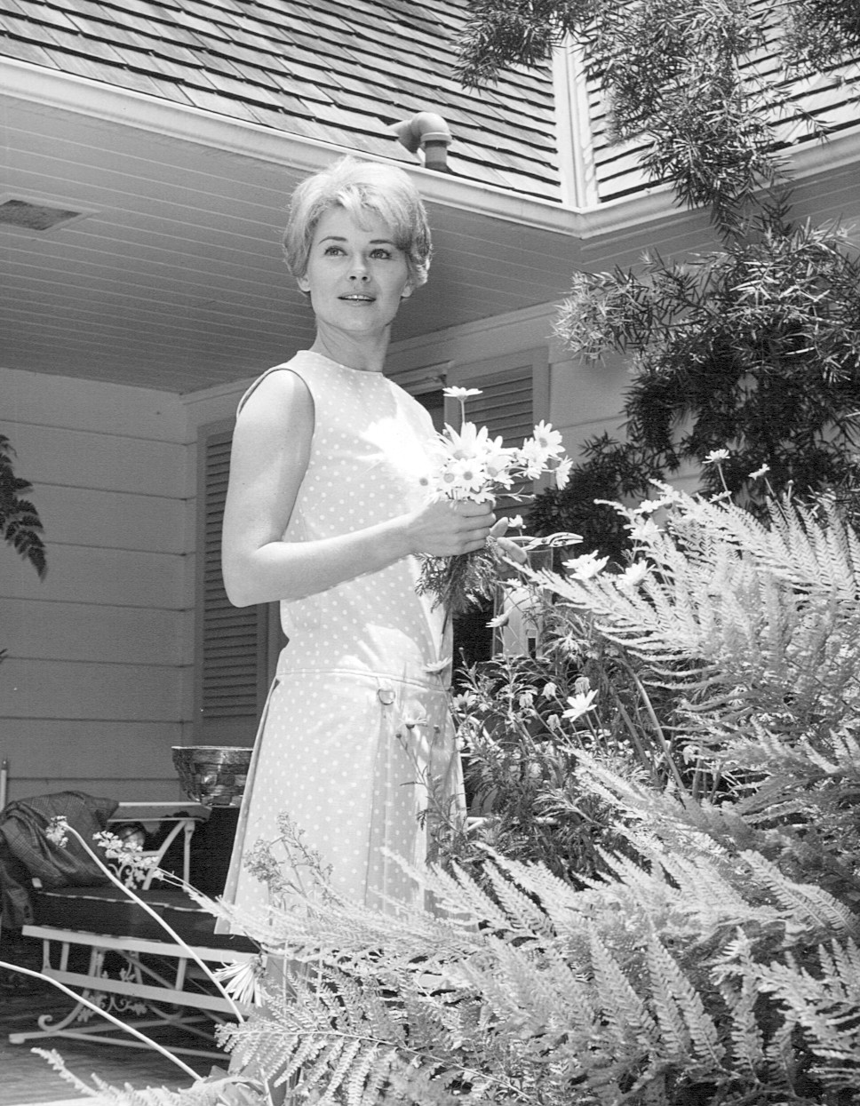 Photo of Hope Lange from the television series The Ghost and Mrs. Muir.